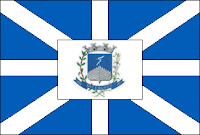 Flags of the city of Arceburgo, Minas Gerais , Brazil.